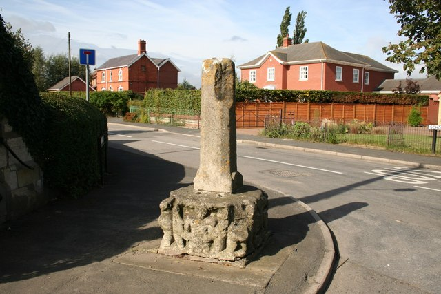 Base and broken shaft of Medieval stone cross in Silk Willoughby, Lincolnshire. The base is carved with symbols of the Four Evangelists.